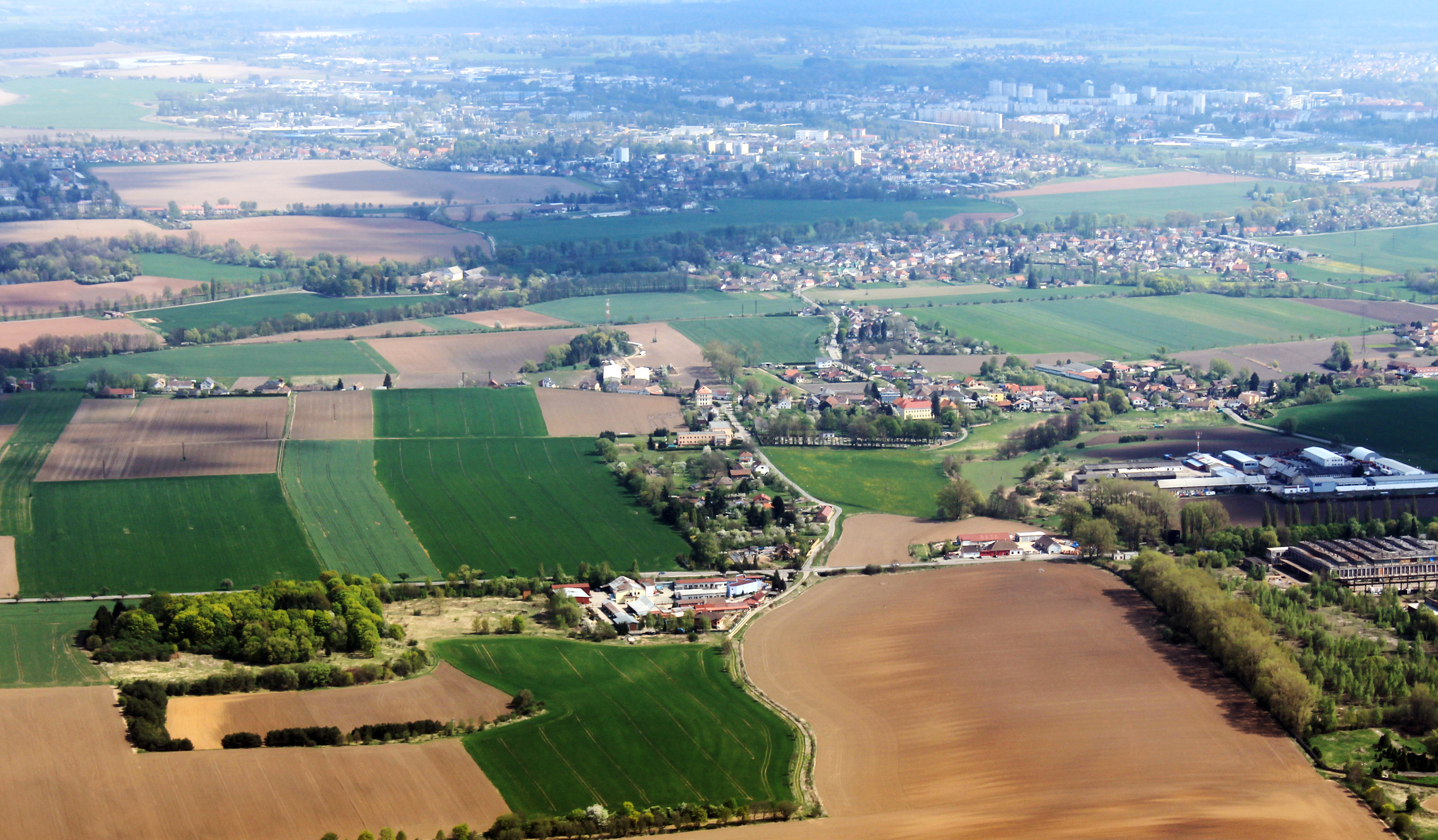 Village Plotiště nad Labem, part of town Hradec Králové from air, eastern Bohemia, Czech Republic